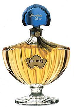 Shalimar perfume made using castoreum.